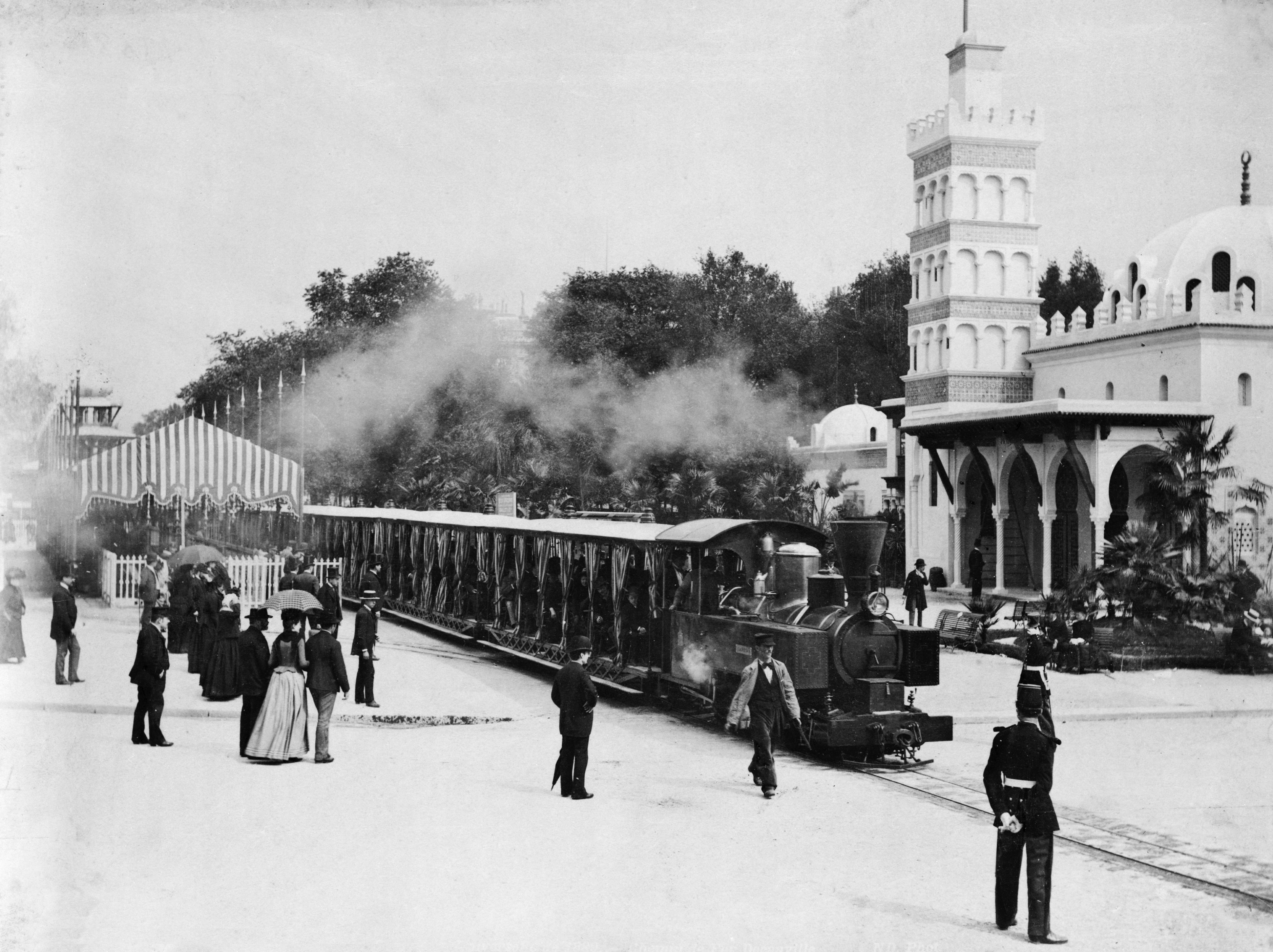 Railroad train at the Paris Exposition, 1889, in front of the Pavilion of Algeria.